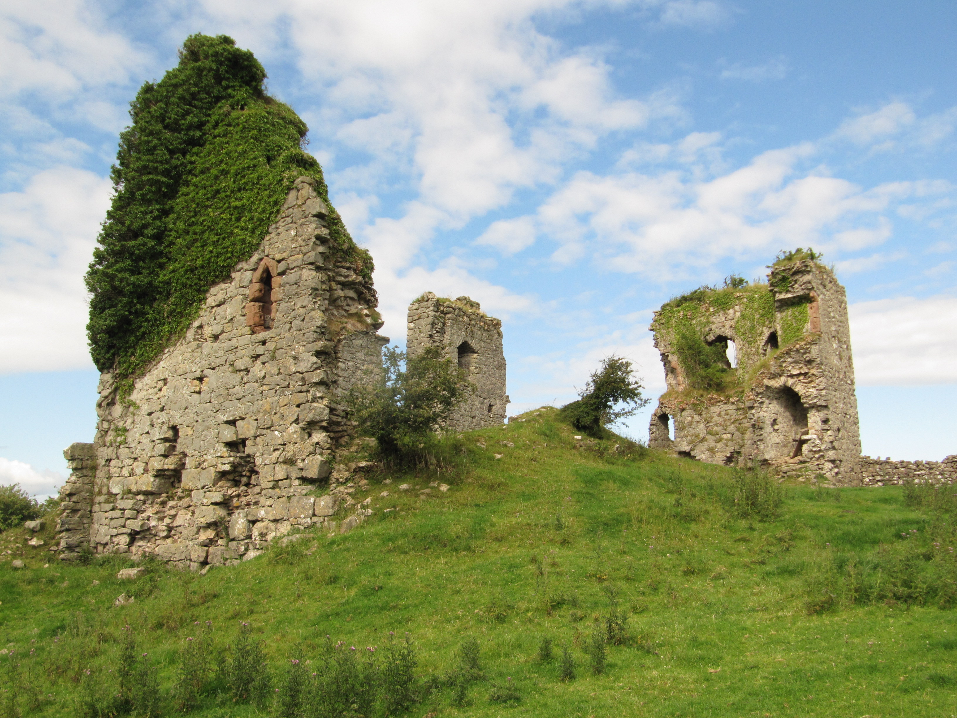 A photo of Gleaston Castle’s north tower as seen from the north west. Taken in July 2015.